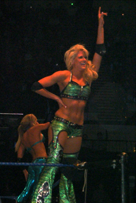 Kelly Kelly @ Adelaide, South Australia 'Smackdown/ECW' house show on the 14th of June '08